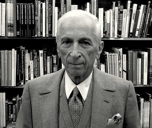 Writer Gay Talese at the Strand Bookstore, New York City. 2006